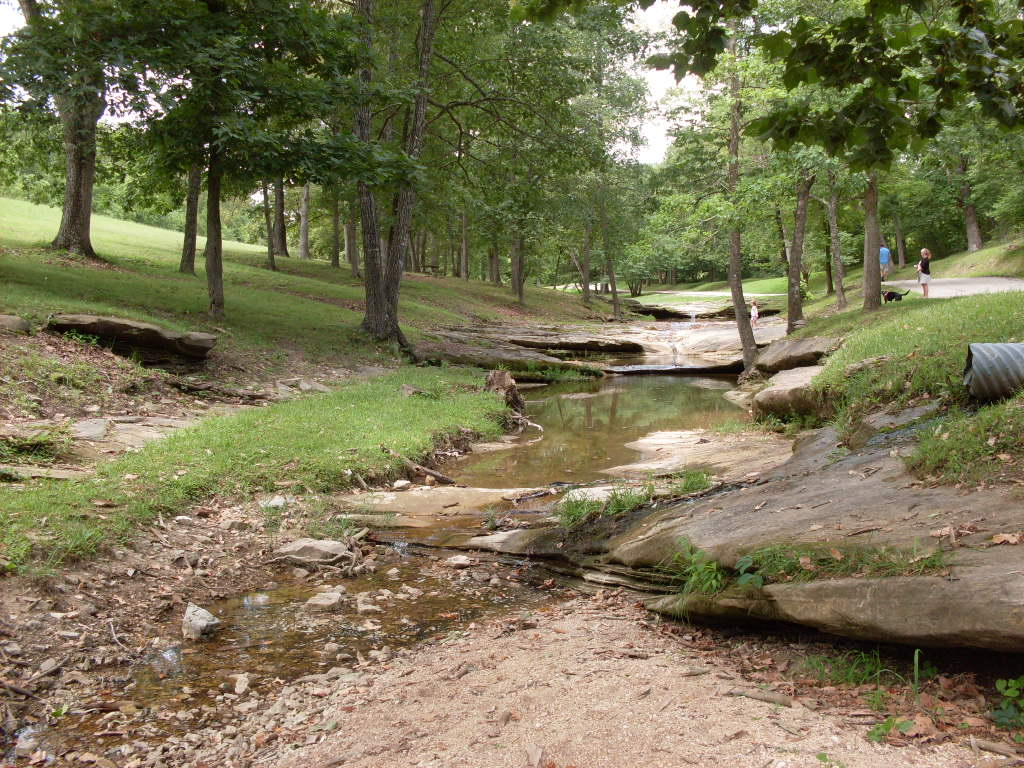 Photo of the stream in the roadside park in Mill Hollow adjacent to Missouri Route 5 in Douglas County, Missouri.